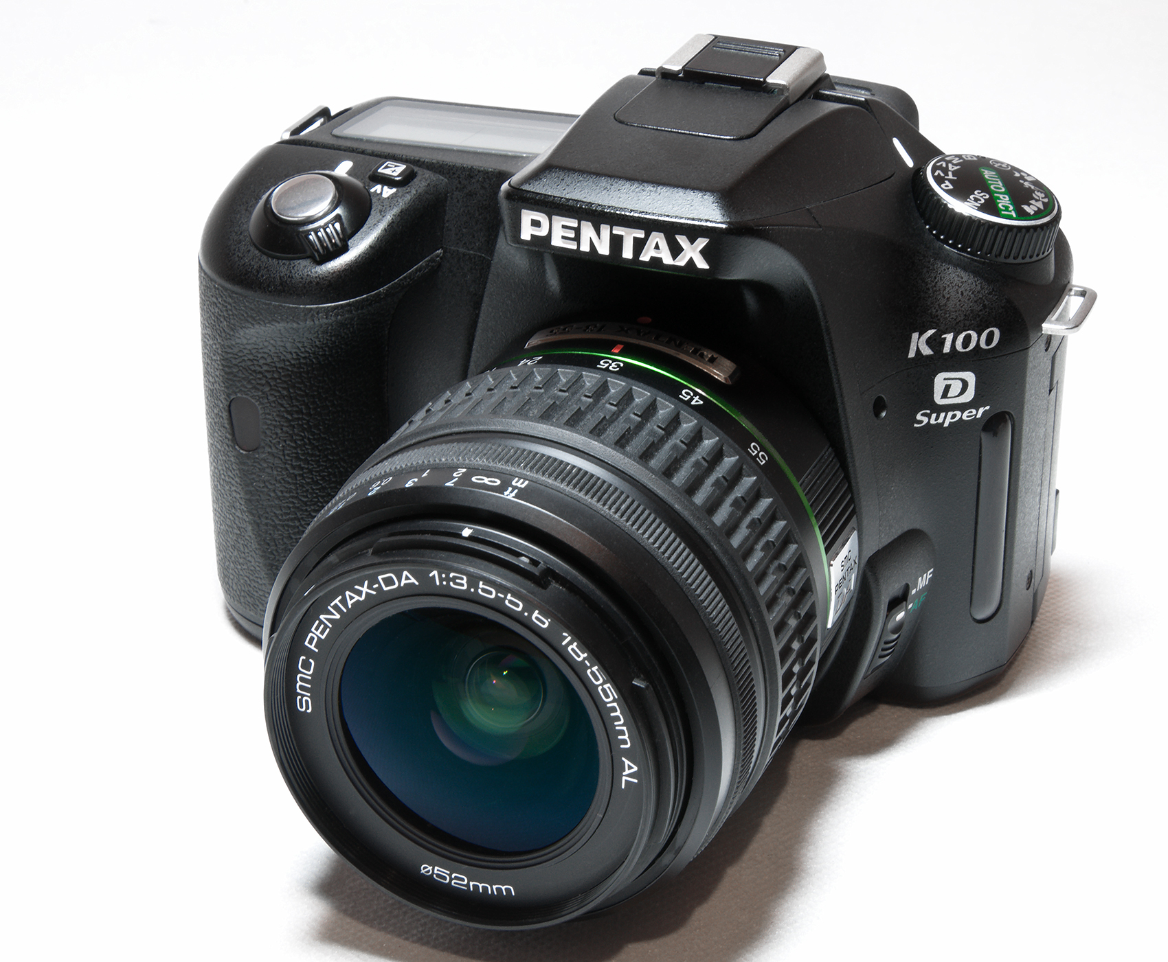 Pentax K100D Super Digital SLR Camera with SMC Pentax DA 18-55mm f3.5-5.6 AL Lens (2007) Details: ISO: 100 Photographer: Bill Bertram